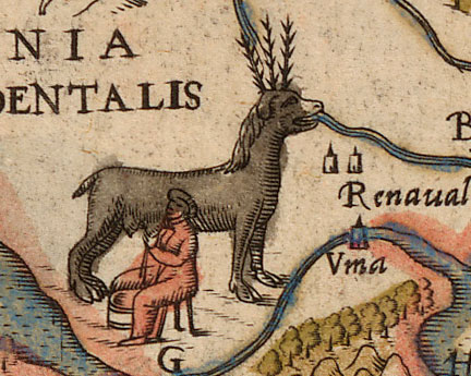 Reindeer being milked on Olaus Magnus' Carta Marina from 1572.